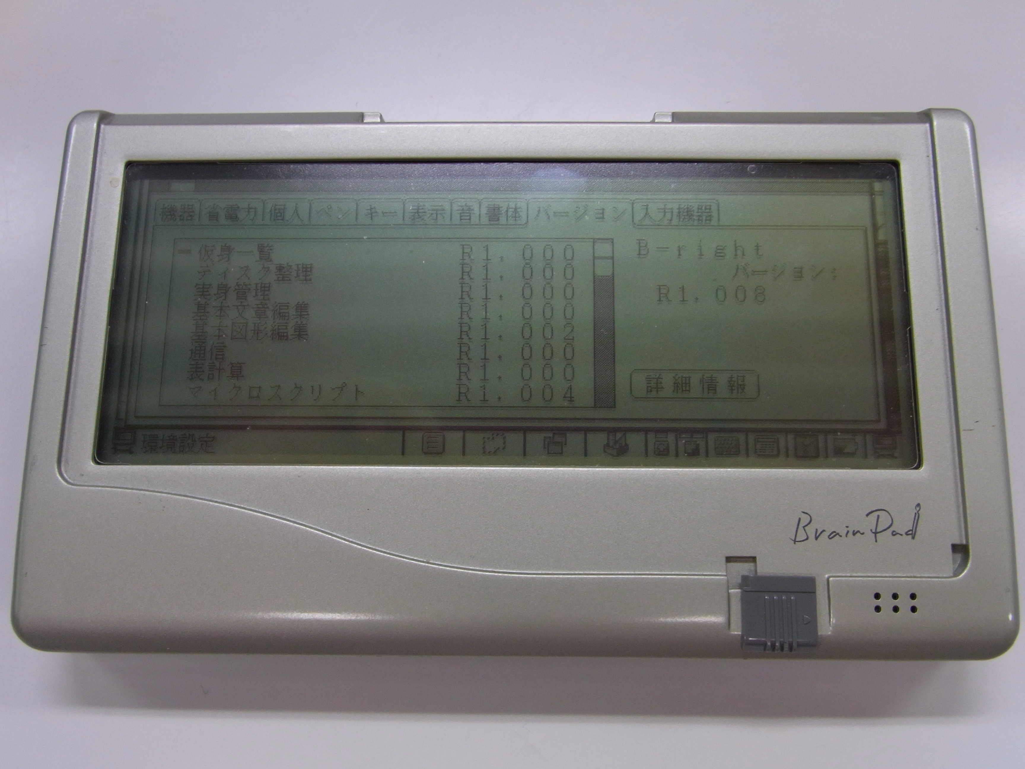 B-Light Specification PDA "SII BrainPad TiPO". Front View.